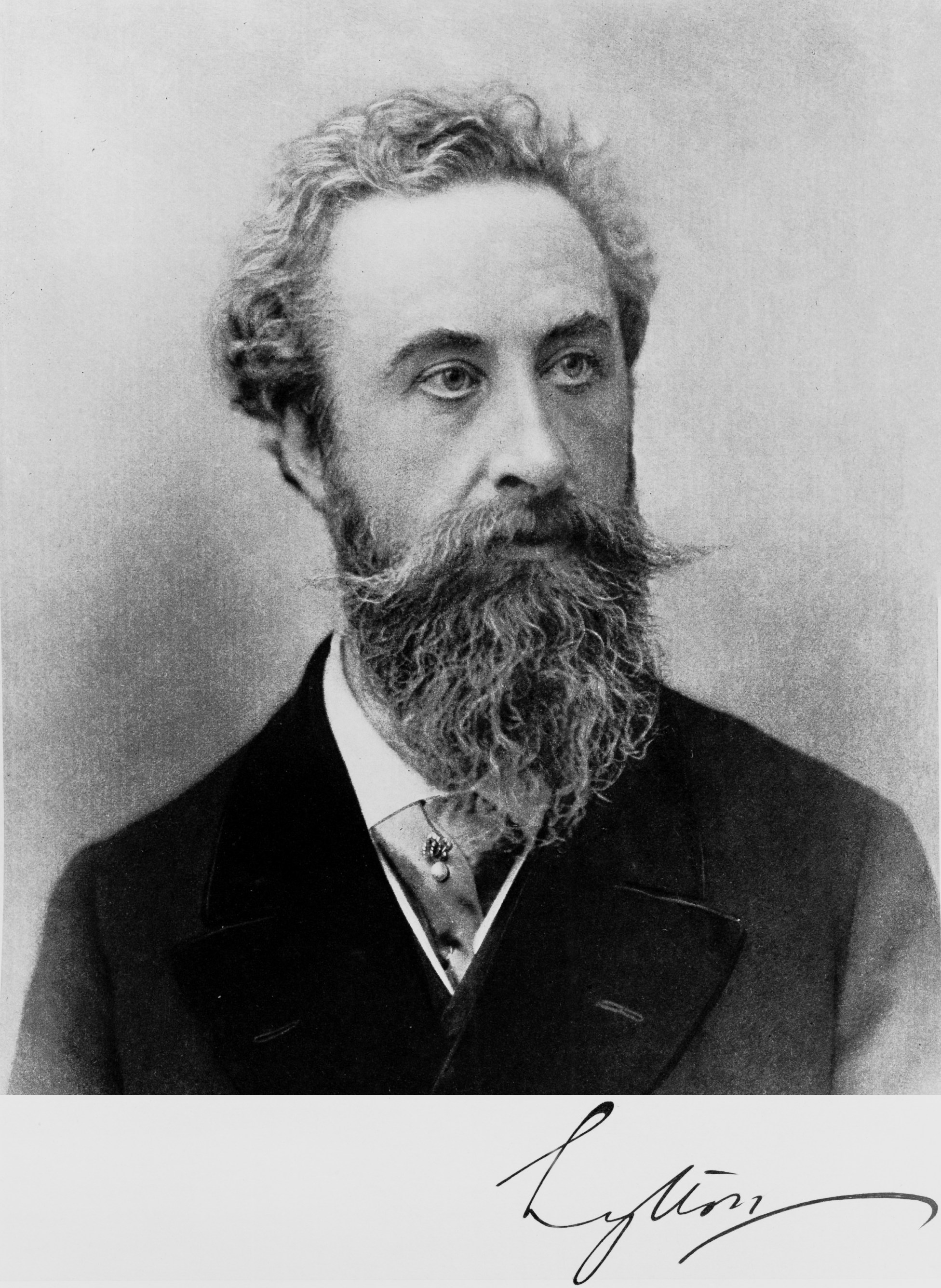 Signed photograph of Robert Bulwer-Lytton, 1st Earl of Lytton